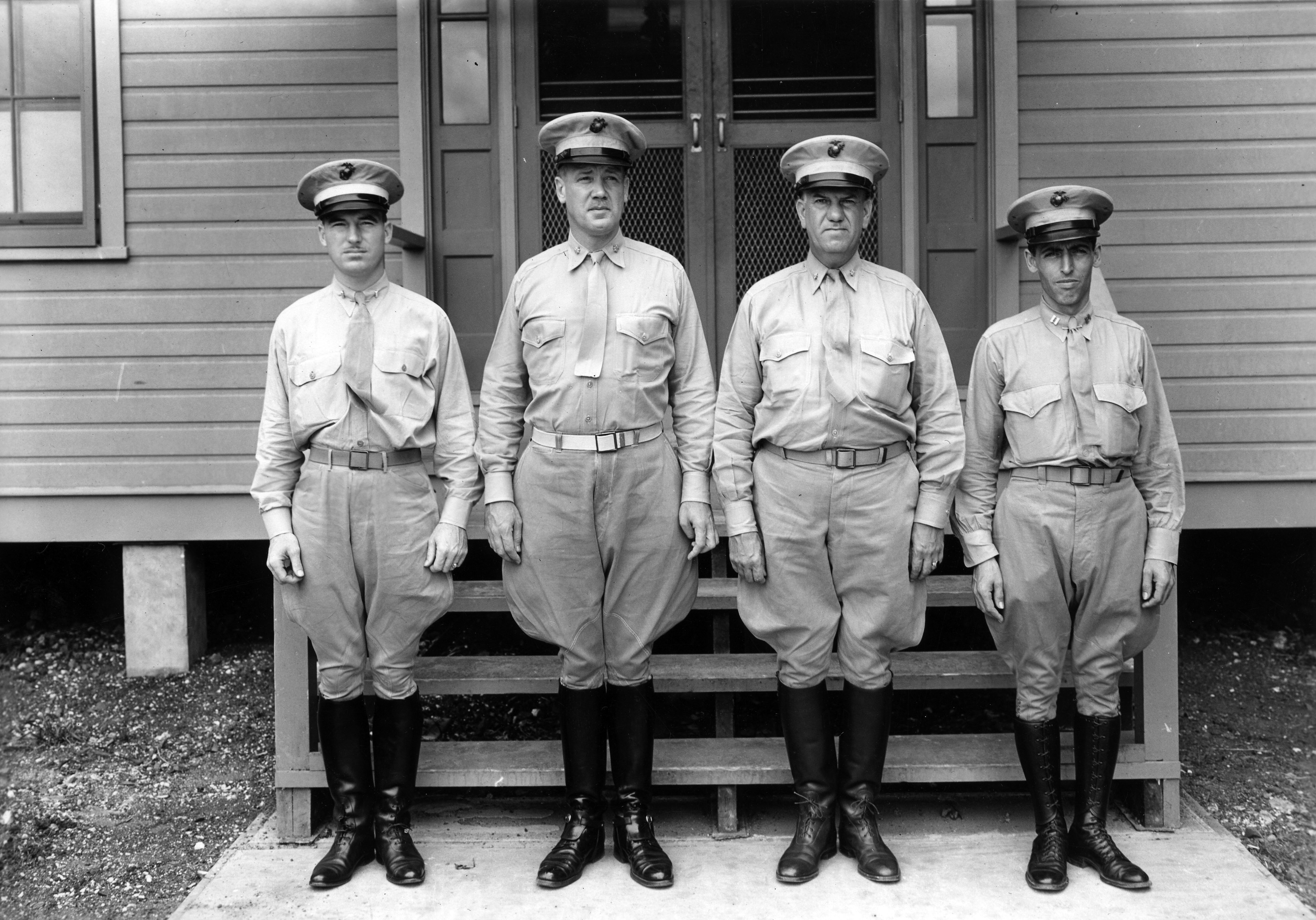 Robert H. Pepper with the staff of 3d Defense Battalion on Hawaii.